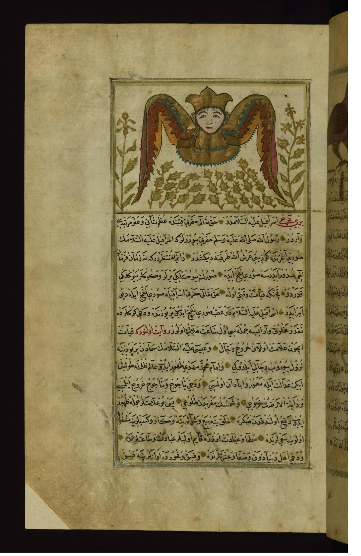 This folio from Walters manuscript W.659 depicts a soul symbolized as an angel.